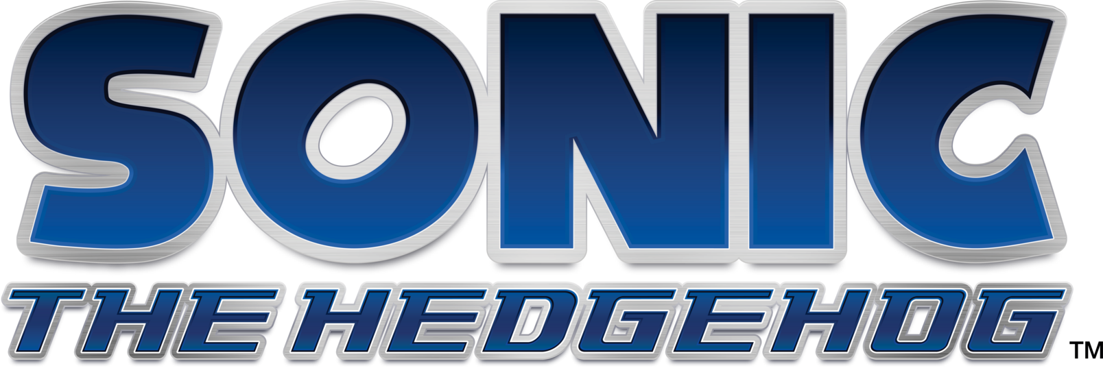 Sonic The Hedgehog 2006 logo